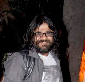 Indian Composer Pritam at Imran-Avantika's wedding reception